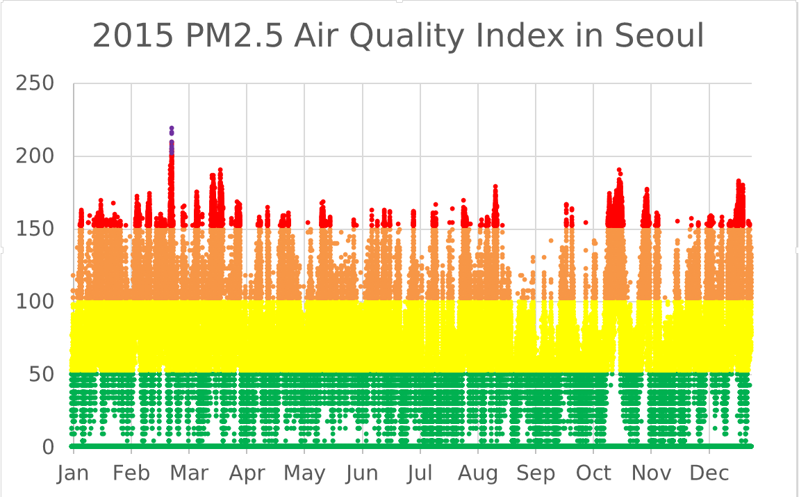 2015 PM2.5 Air Pollution Index in Seoul (hourly average data Very Unhealthy Unhealthy Unhealthy for sensitive groups Moderate Good